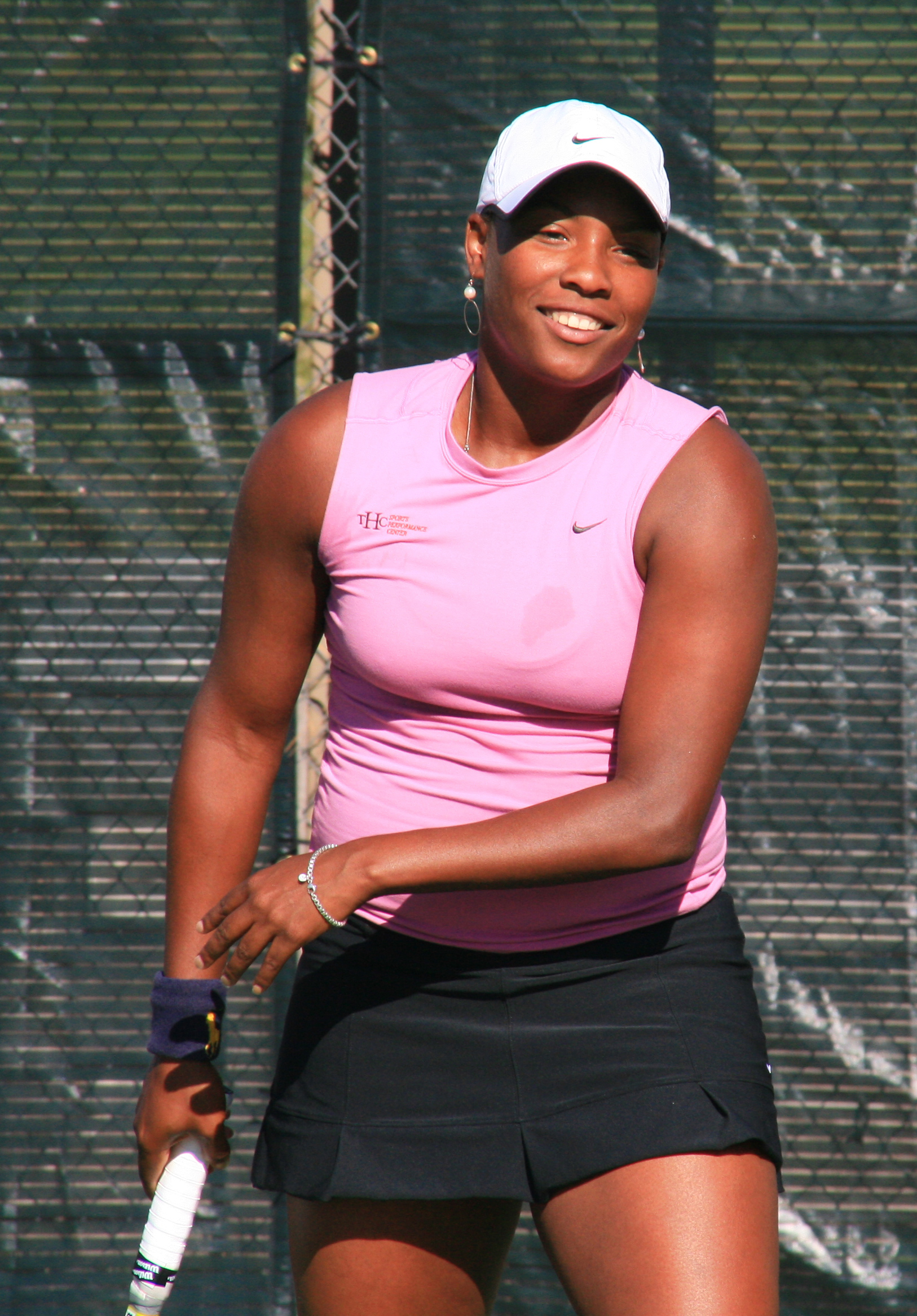 Ahsha Rolle at the Coleman Vision Tennis Championship in Albuquerque, New Mexico.